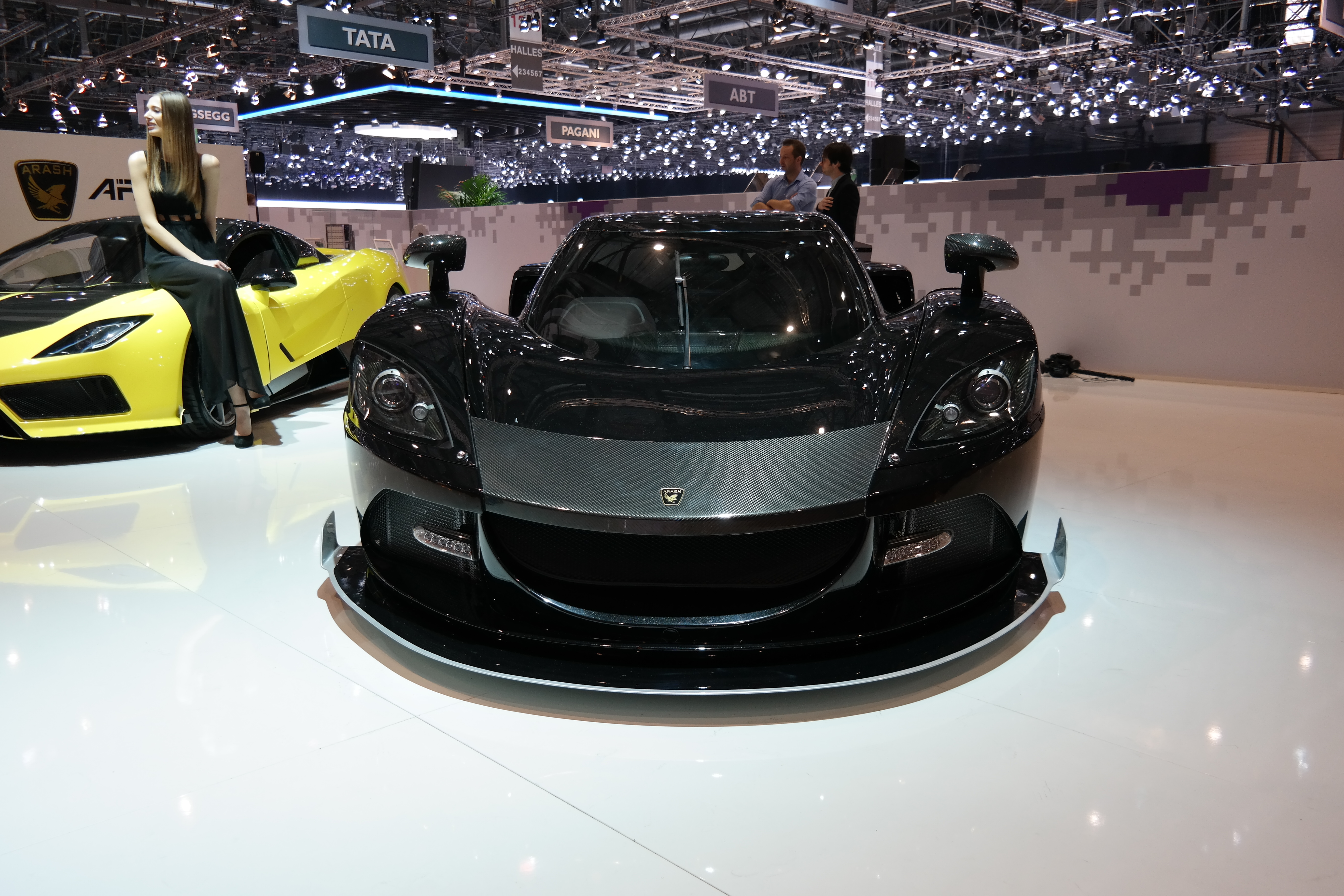 Geneva Motor Show 2016 (photo taken on the first press day)